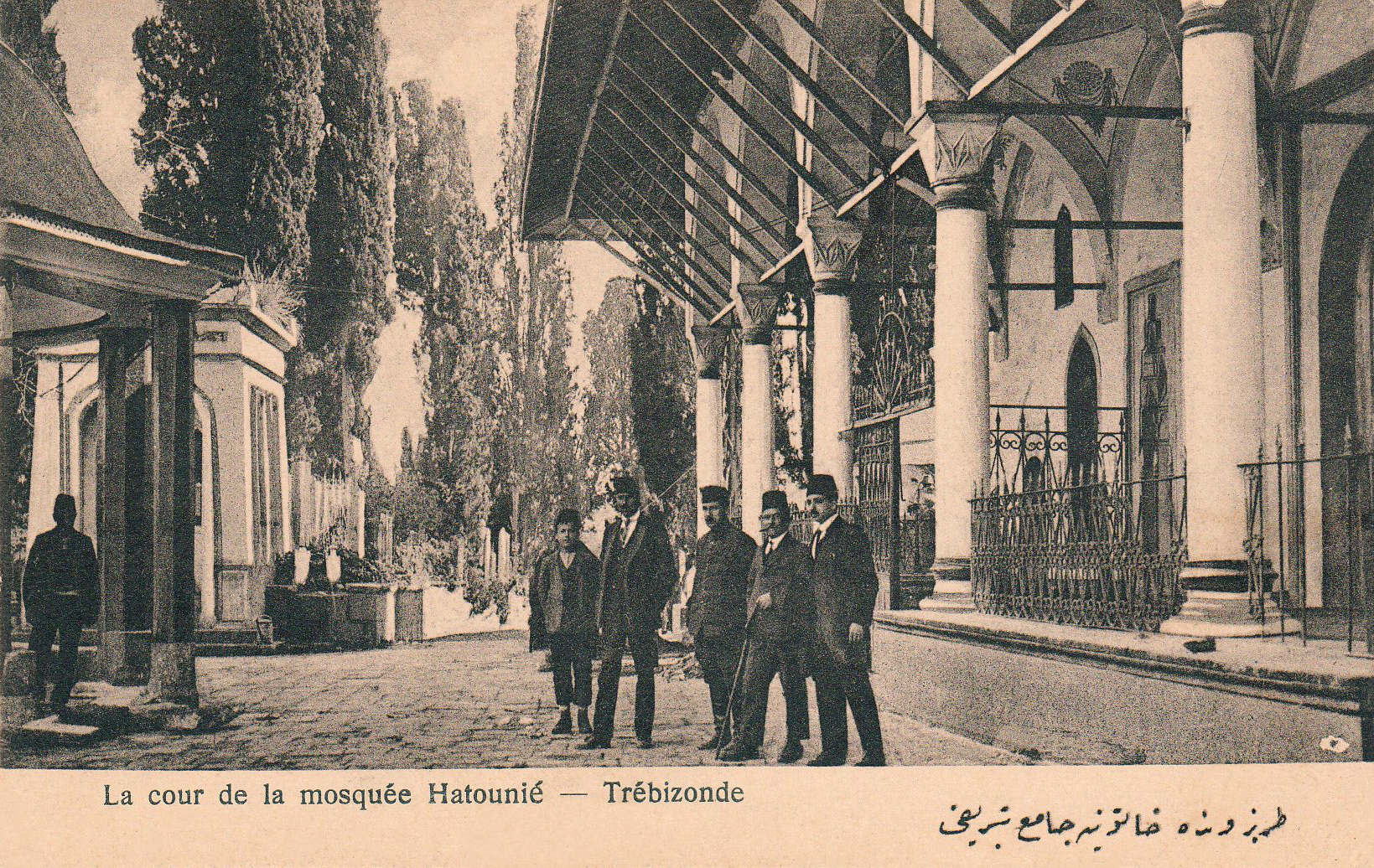 Postcard by Osman Nuri featuring the Gulbahar Hatoun mosque in Trabzon, Turkey.